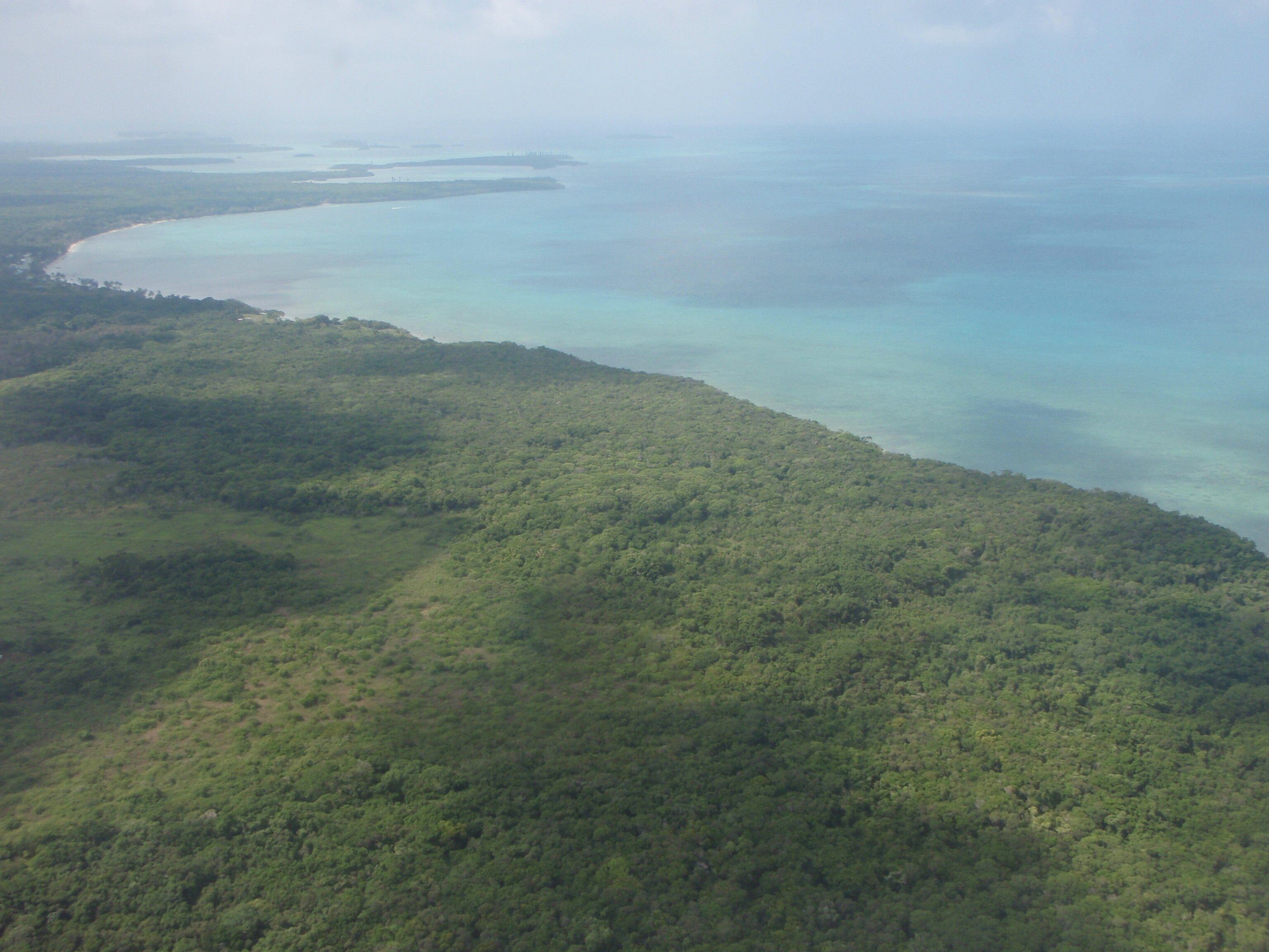 Overview by plane of Île des Pins, New Caledonia.